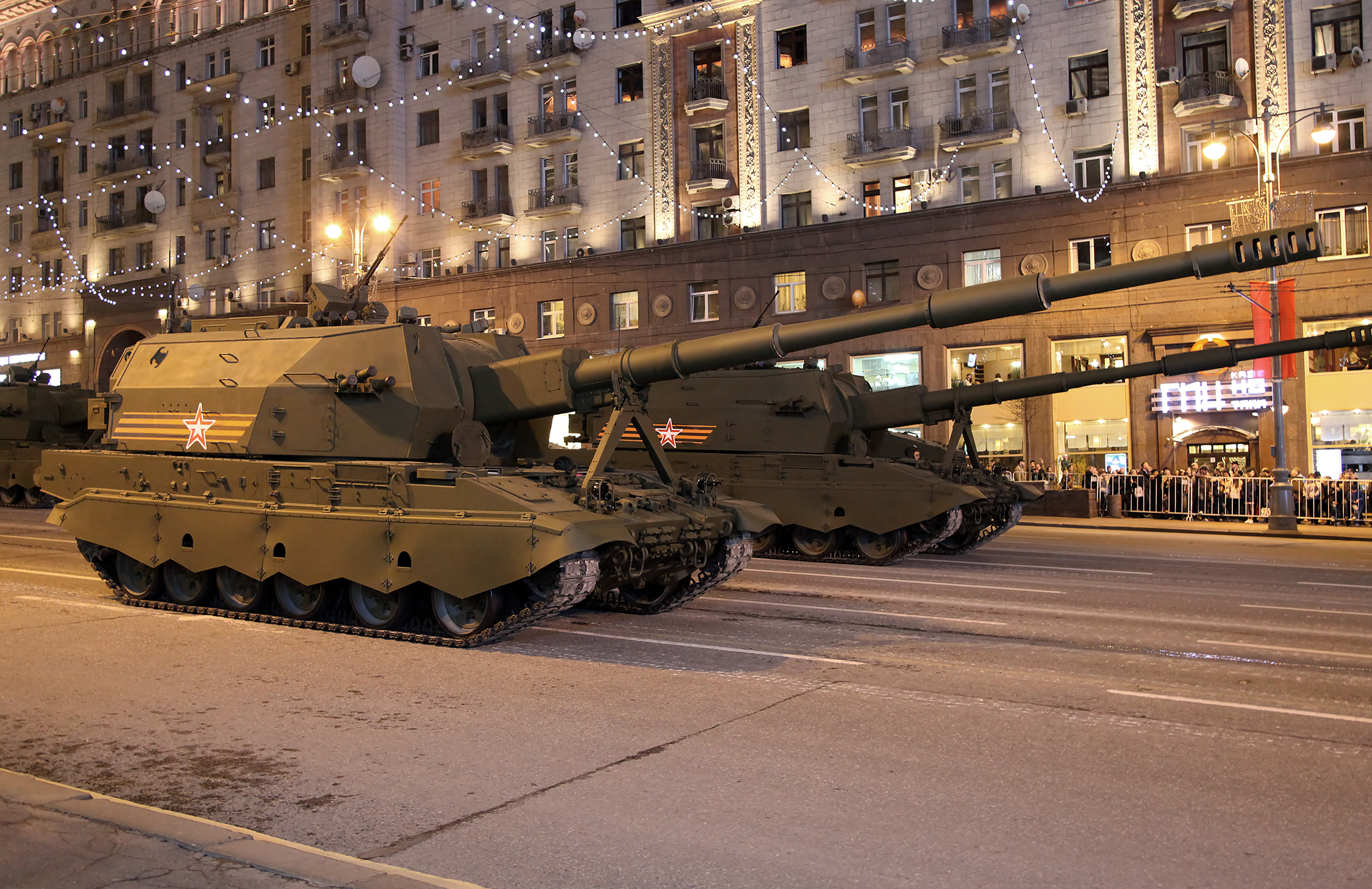 Self-propelled gun 2S35 Koalitsiya-SV